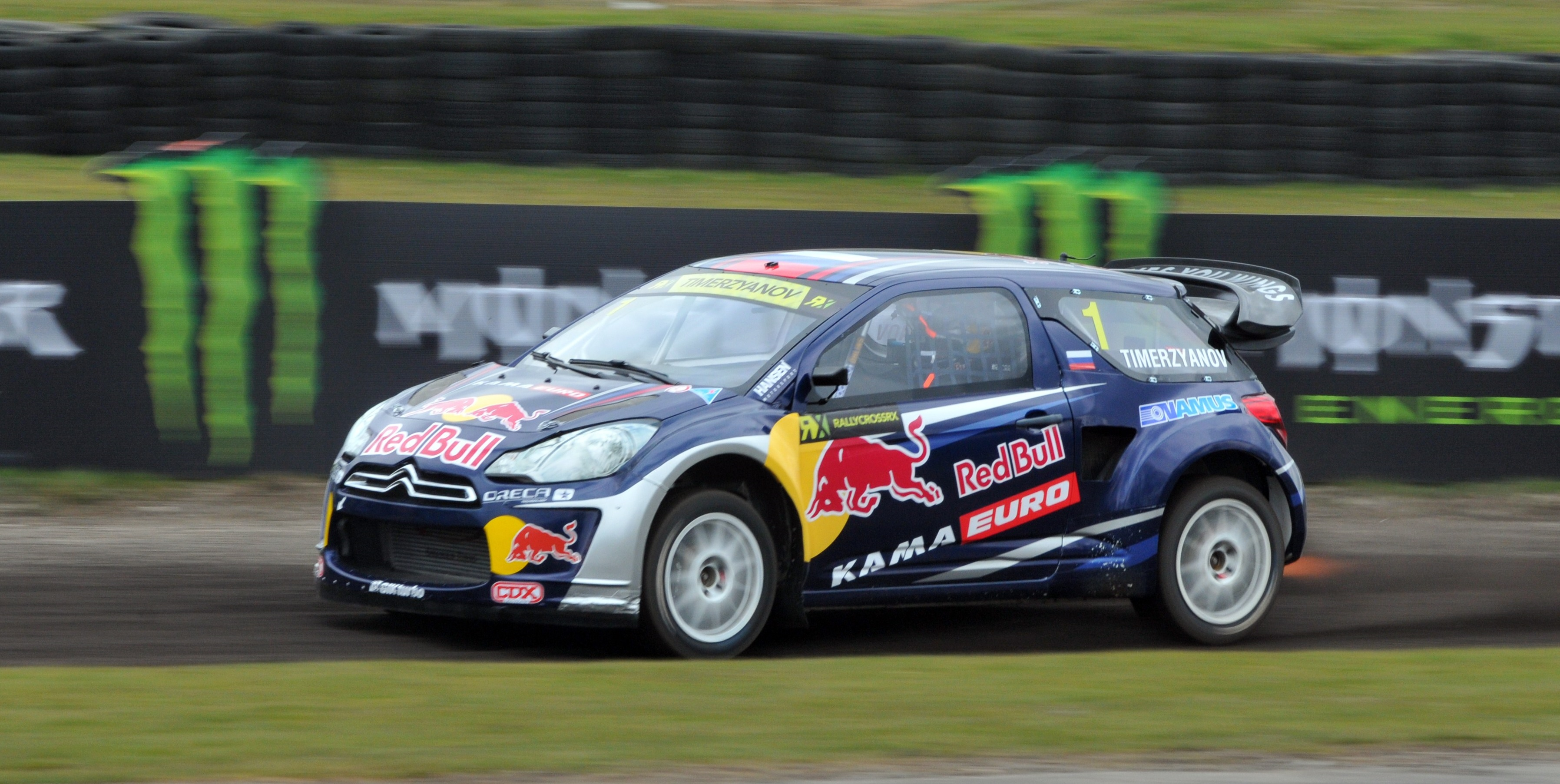 Russian rallycross driver Timur Timerzyanov in his Citroën DS3 Supercar, at Lydden Hill. Round 1 of the 2013 FIA European Rallycross Championship.